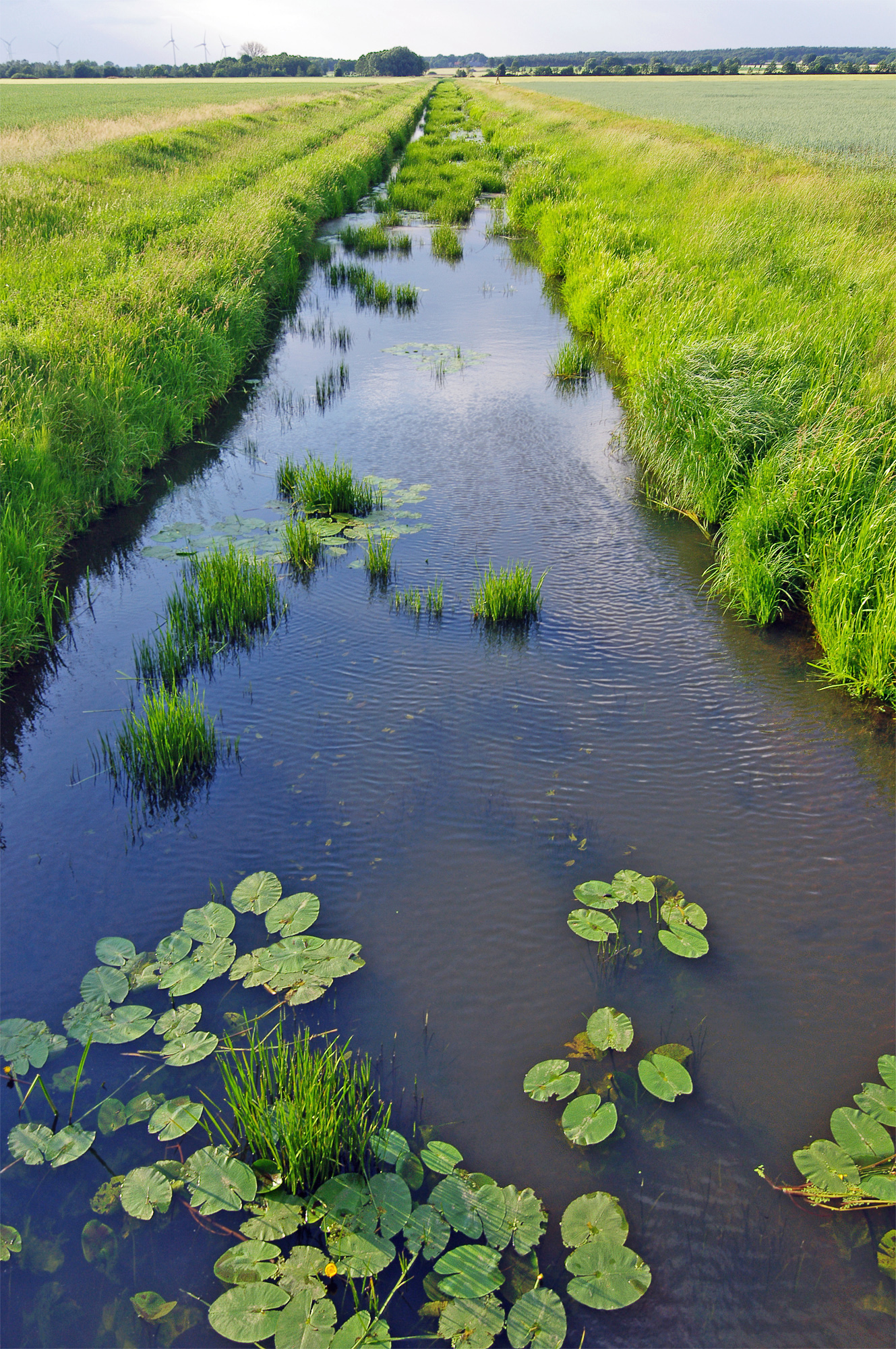 Looking north from the Lüchower Landgraben valley to the wooded ground moraine "Lemgow" in the south of the Wendland, northern Germany. You can see the ditch "Flötgraben" with plants like Nuphar lutea, Sagittaria sagittifolia, and Butomus umbellatus growing in it.